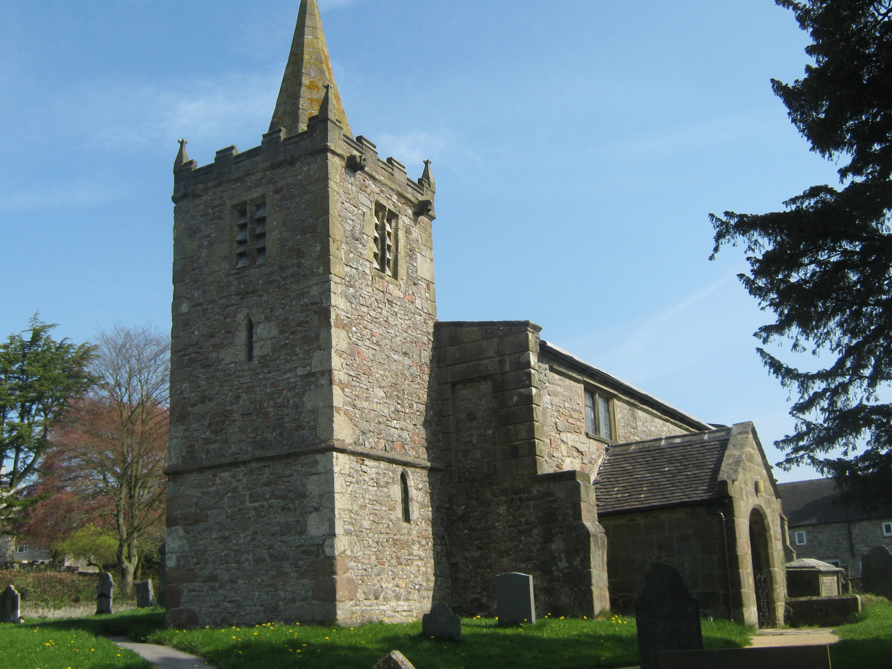 Saint Michael's Church, Kniveton, Derbyshire